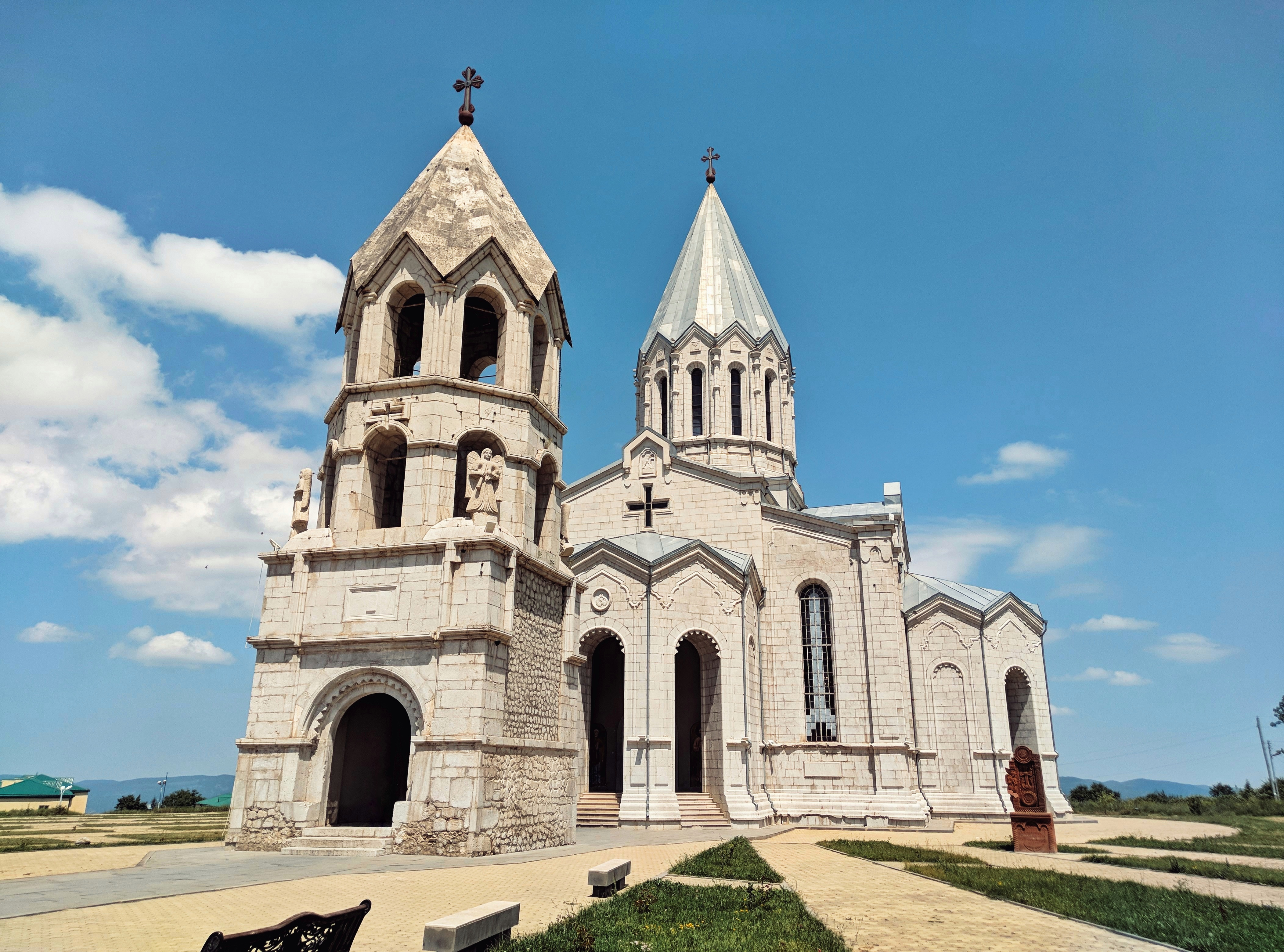 View of the Ghazanchetsots Cathedral with the renovated yard